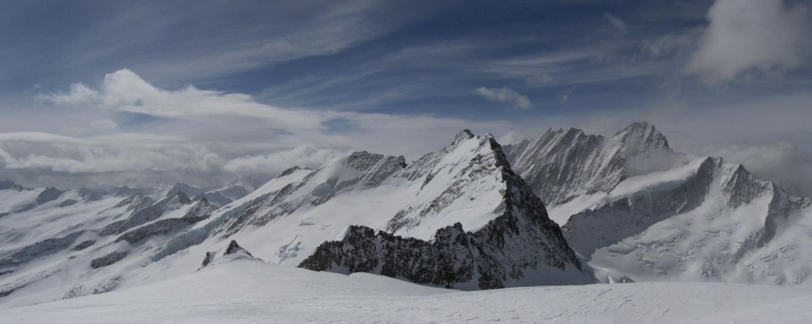 Panorama with the Bärglistock and Schreckhorn. View from near Rosenegg (Gauligletscher)